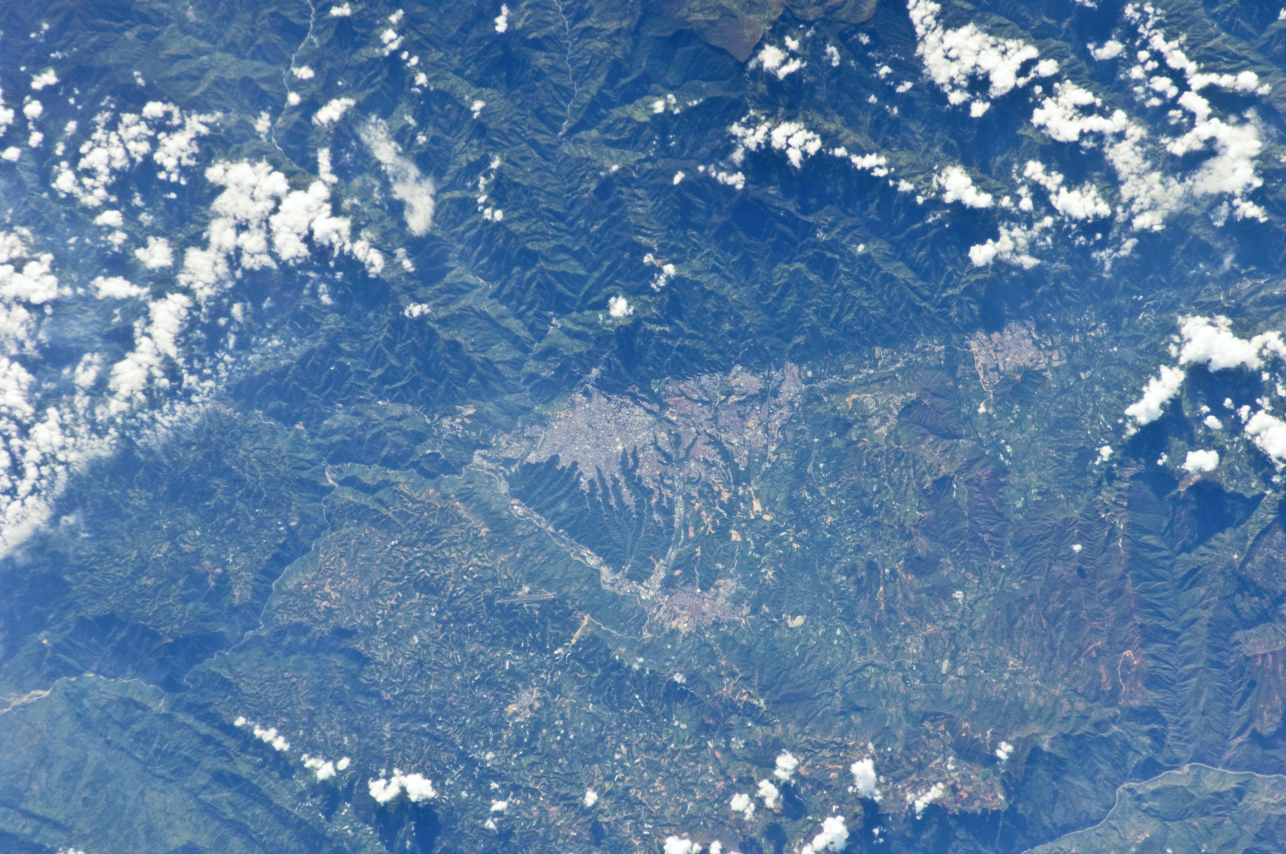 Bucaramanga metropolitan area,Colombia from space.